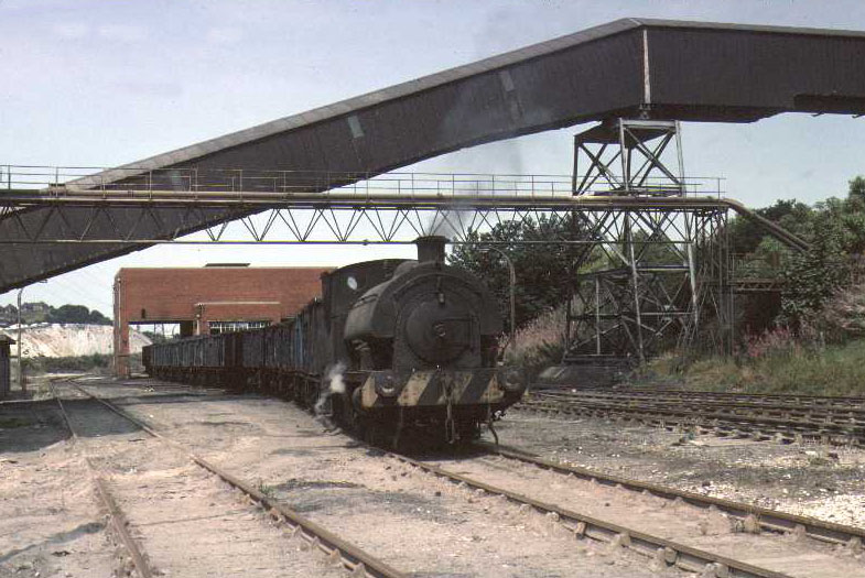 UK – Robert Stephenson & Hawthorn-built 0-4-0ST pauses in its' shunting of wagons at Agecroft Power Station, north of Manchester. 1976